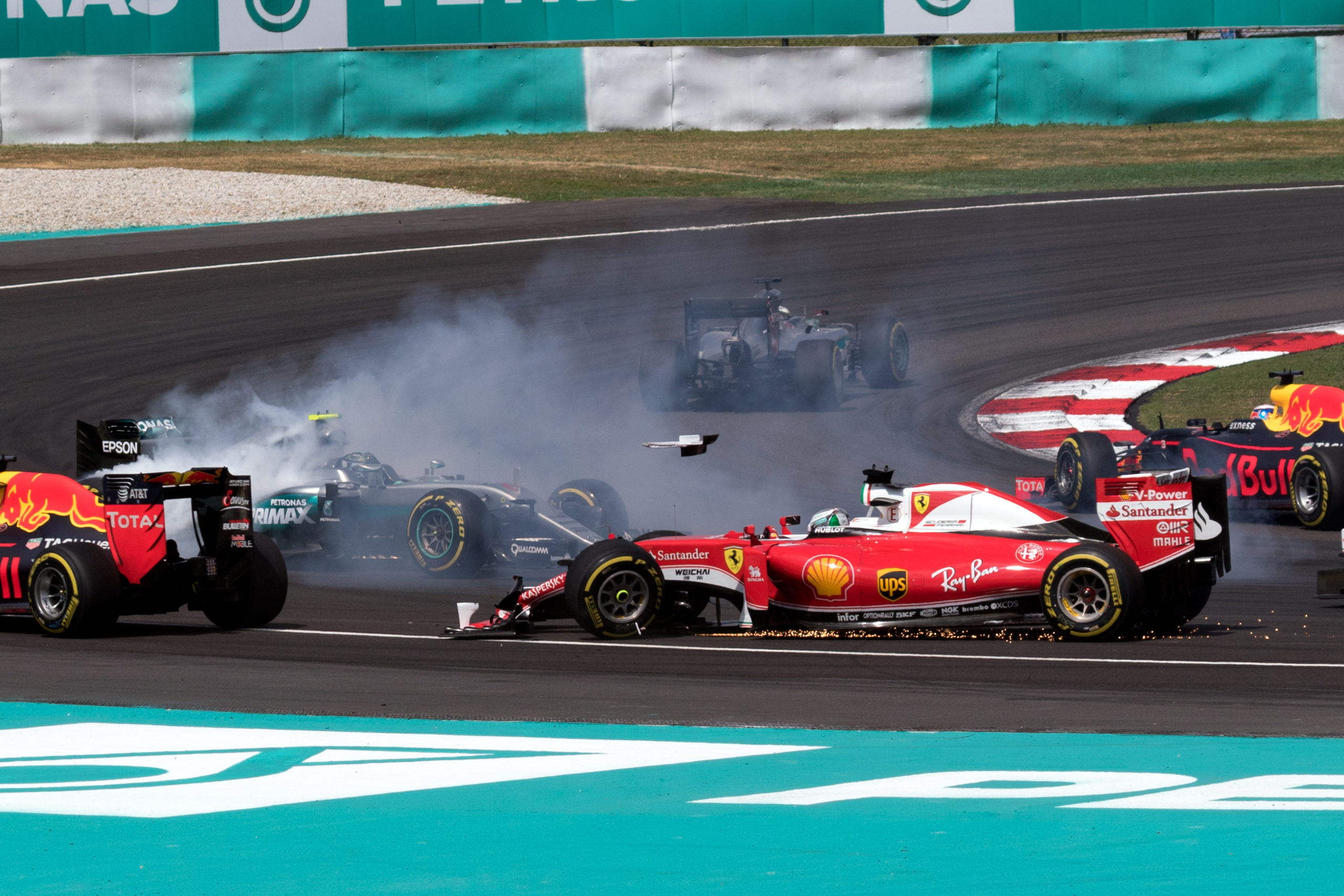 Formula One 2016 Rd.16 Malaysian GP: opening lap